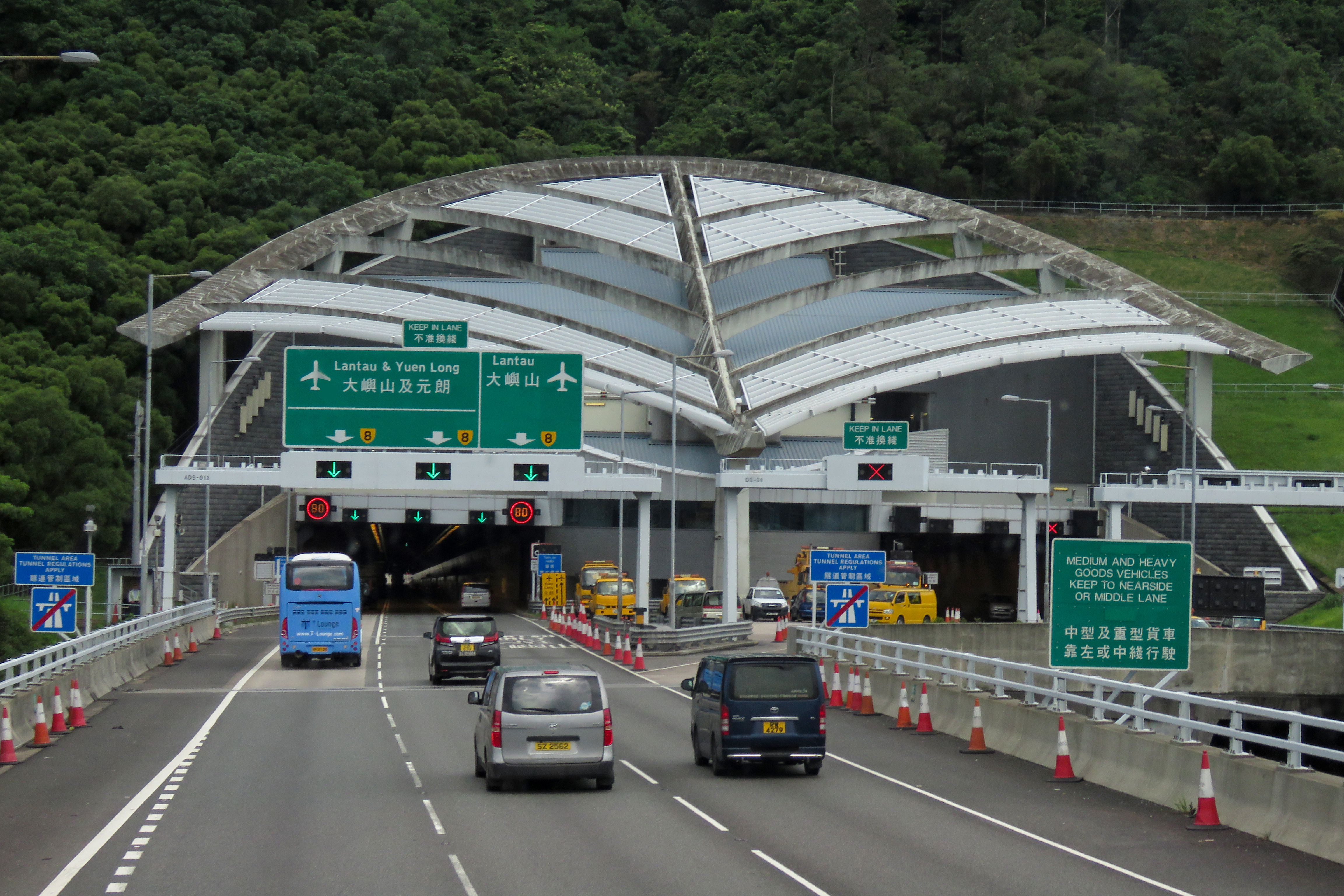 Taken from the upper deck of an outbound Cityflyer A22. The southeast entrance is in Nam Wan Kok.